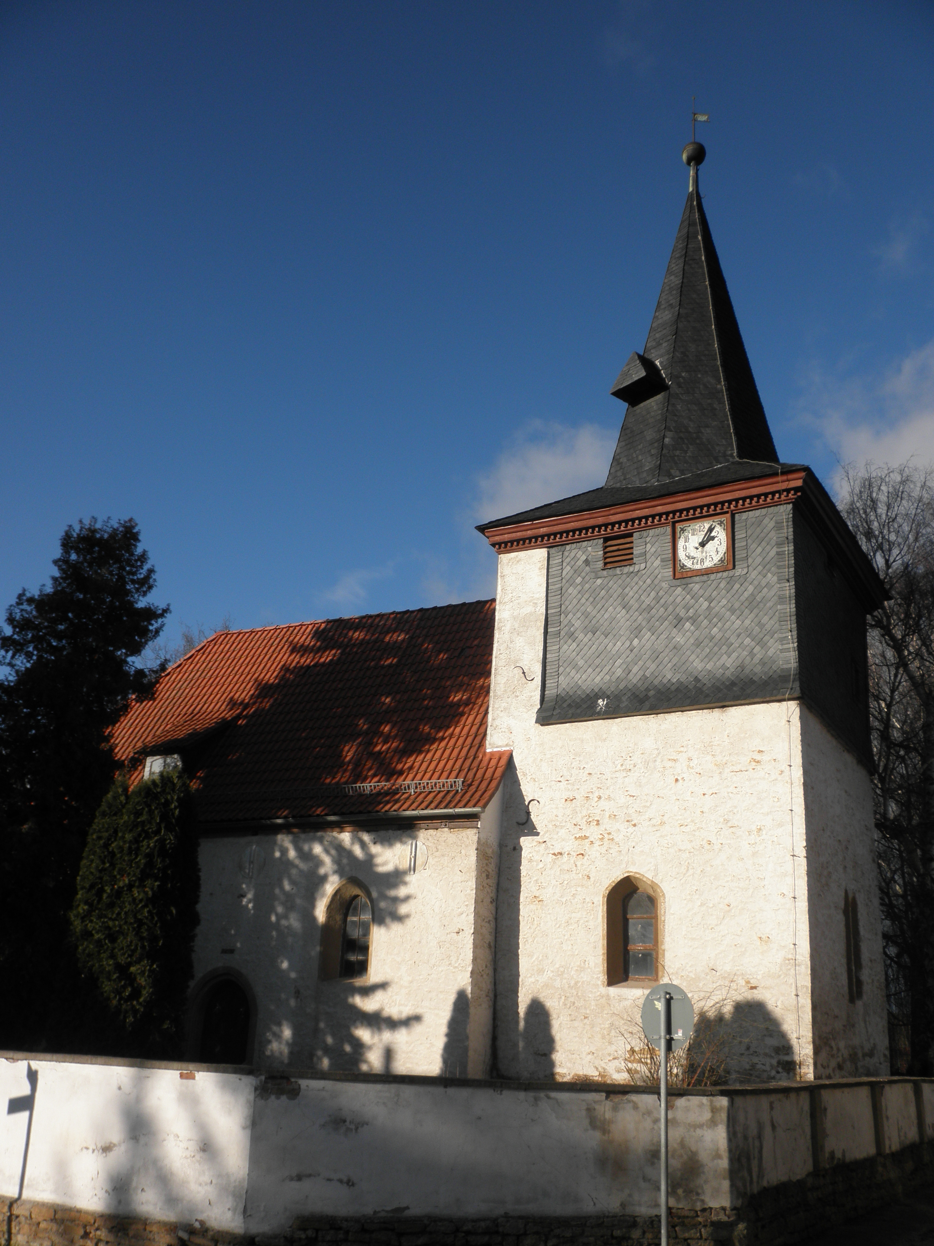 Church in Kleinwelsbach in Thuringia